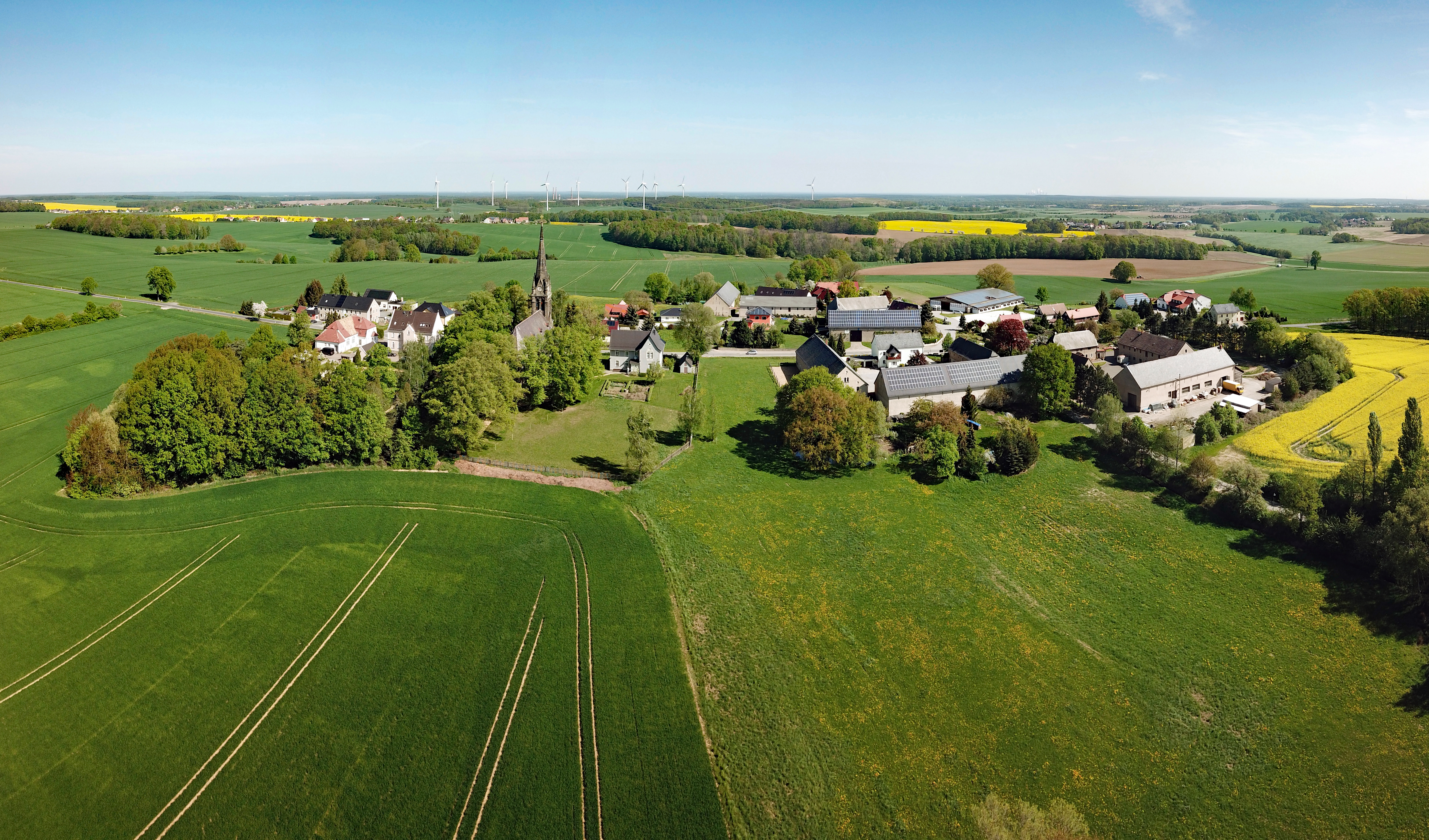 Storcha (Göda, Saxony, Germany) Hornjoserbsce: Powětrowy wobraz Baćonja z juha